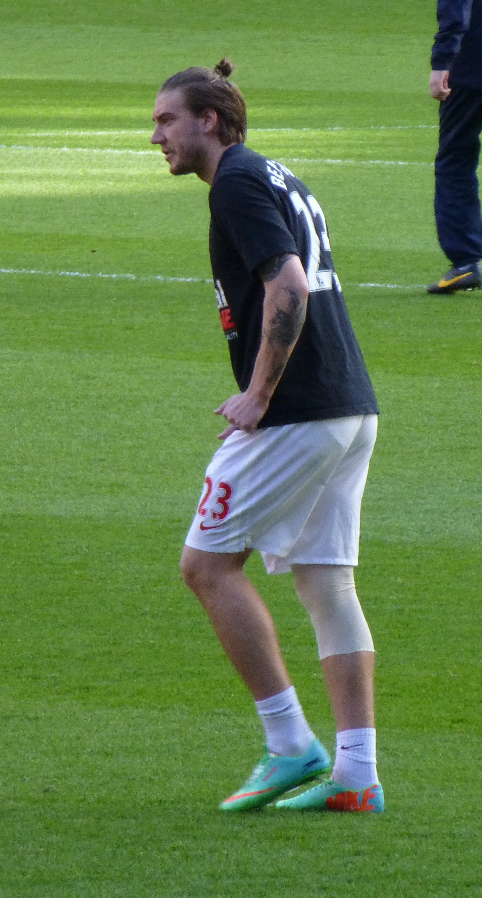 Nicklas Bendtner warming up for Arsenal before their Premier League match against Sunderland on 22 February 2014.